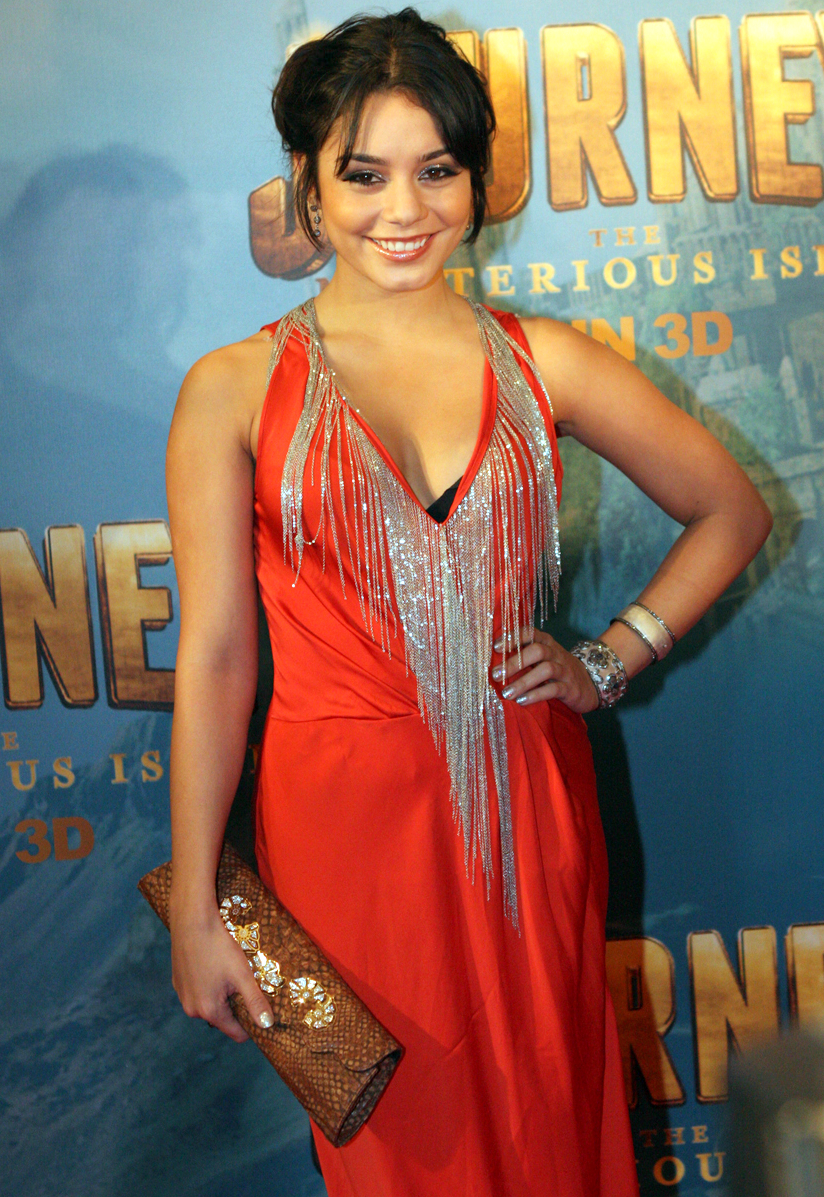 Vanessa Hudgens at the Journey 2: The Mysterious Island Premiere in Sydney 2012.